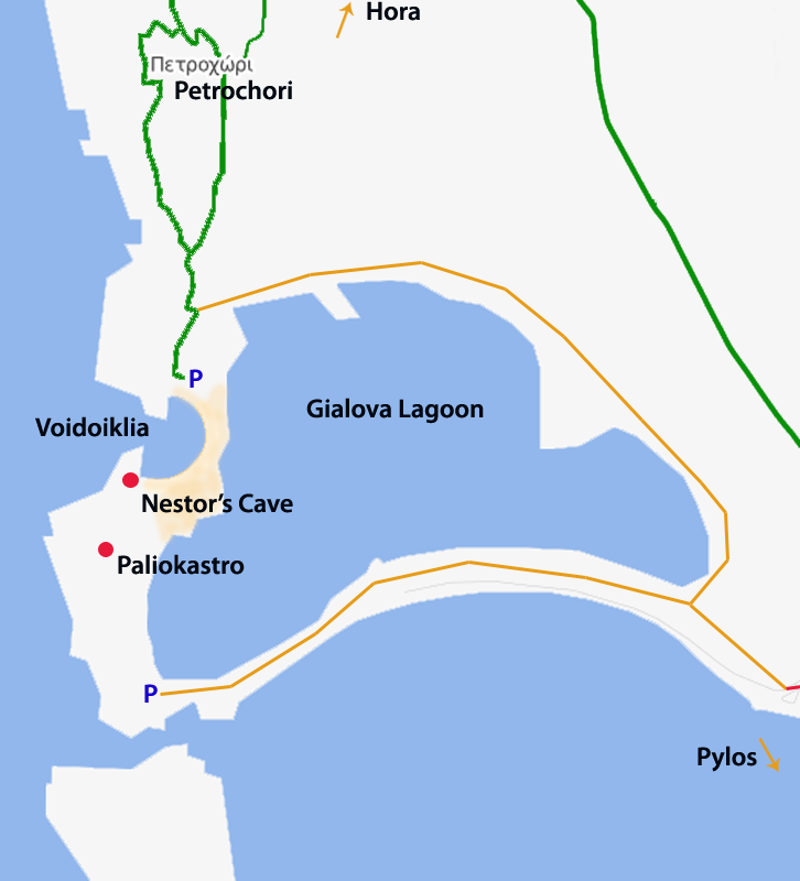 Voidokilia beach location showing parking spaces, key sites of interest and local roads (rough tracks in orange, laid roads in green). Both car park areas can suffer from mosquitoes due to the proximity of the lagoon.